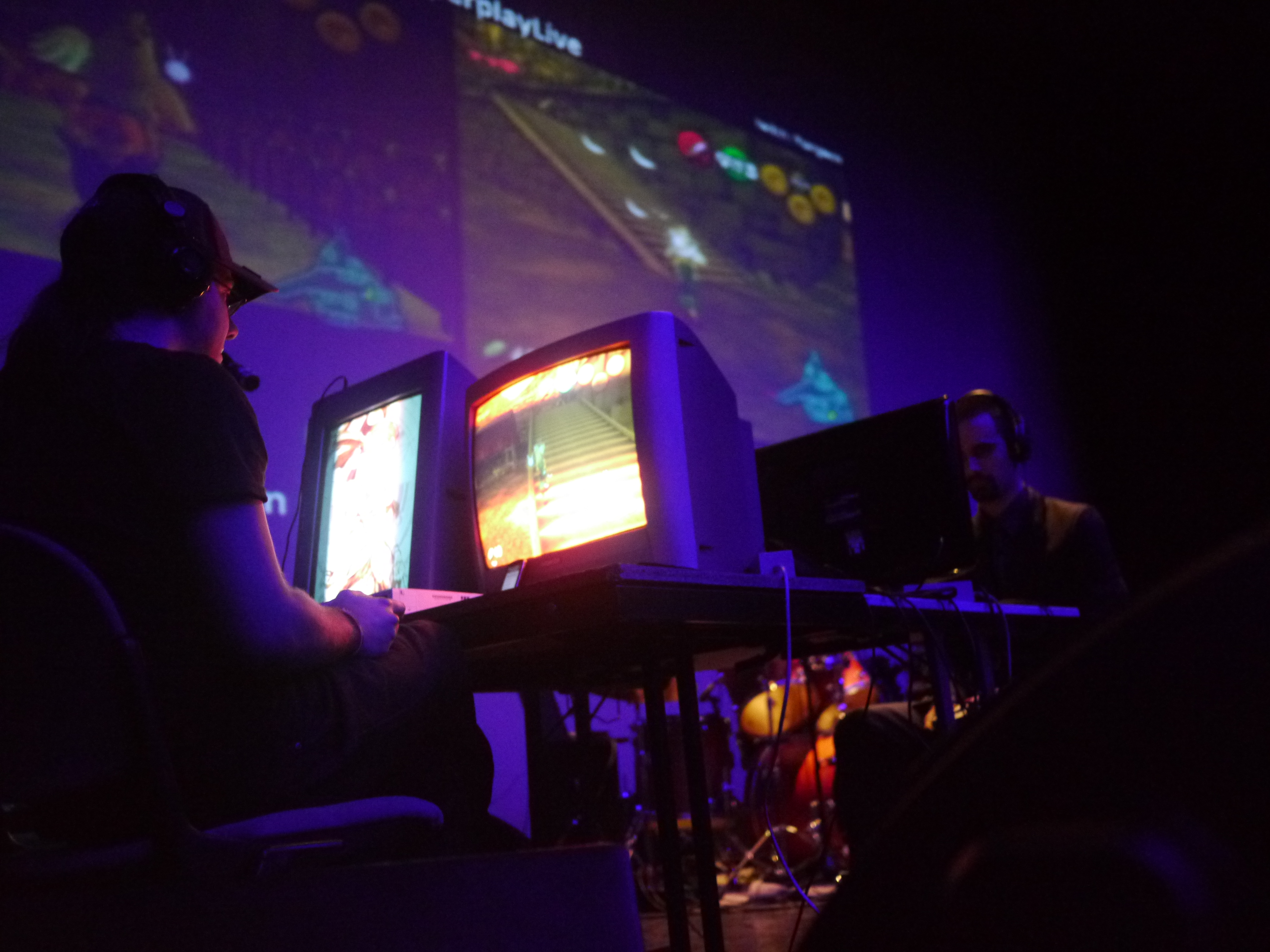 Mang'Azur festival of Toulon - official site